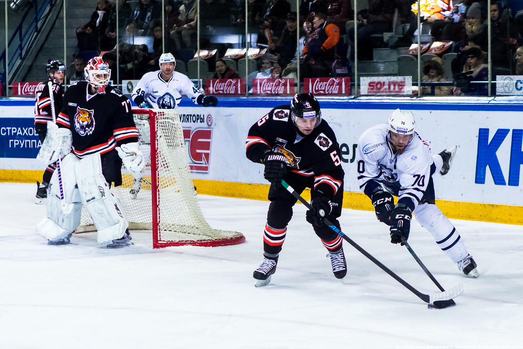 Medveščak Zagreb forward Radek Smoleňák (in white, №70), Amur Khabarovsk defenceman Daniil Stalnov (in dark, №55) and Amur Khabarovsk goalie Juha Metsola during KHL game on February 2, 2016.